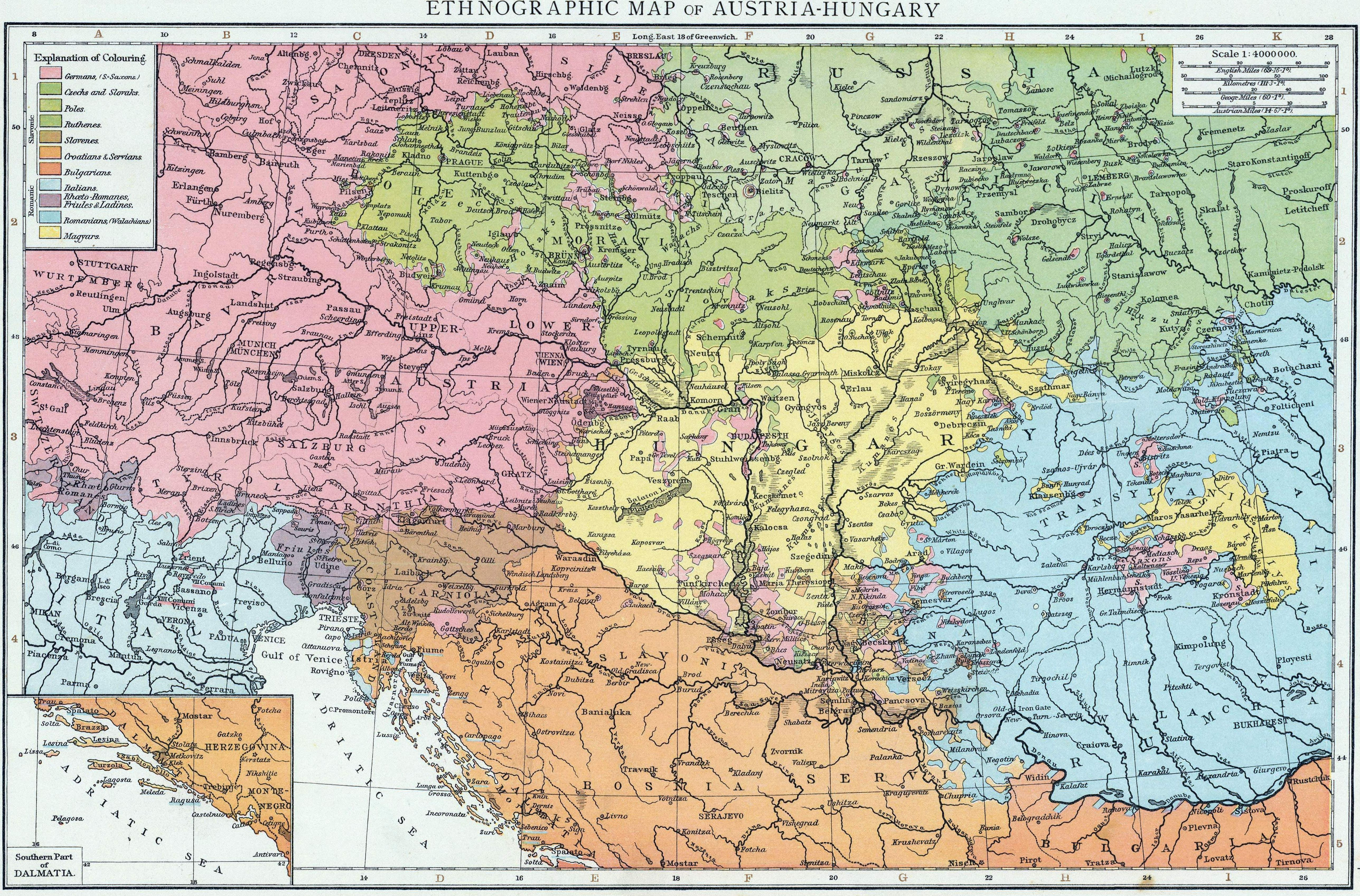 Ethnographic map of Austria-Hungary (census 1890). See also the German version.